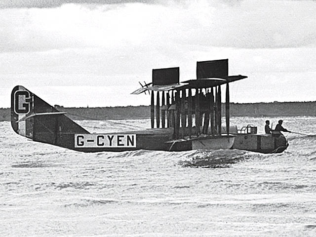 Felixstowe F.3, flight boat, Canada 1920 The Felixstowe F.3 was a british flight boat in the WWI (1917-18). In 1920 the Canadian Air Board sponsored a project to conduct the first ever Trans-Canada flight. The leg from Riviére du Loup to Winnipeg was flown by LCol. Leckie and Maj. Hobbs in a Felixstowe F.3 to determine the feasability of such flights for future air mail and passenger service.